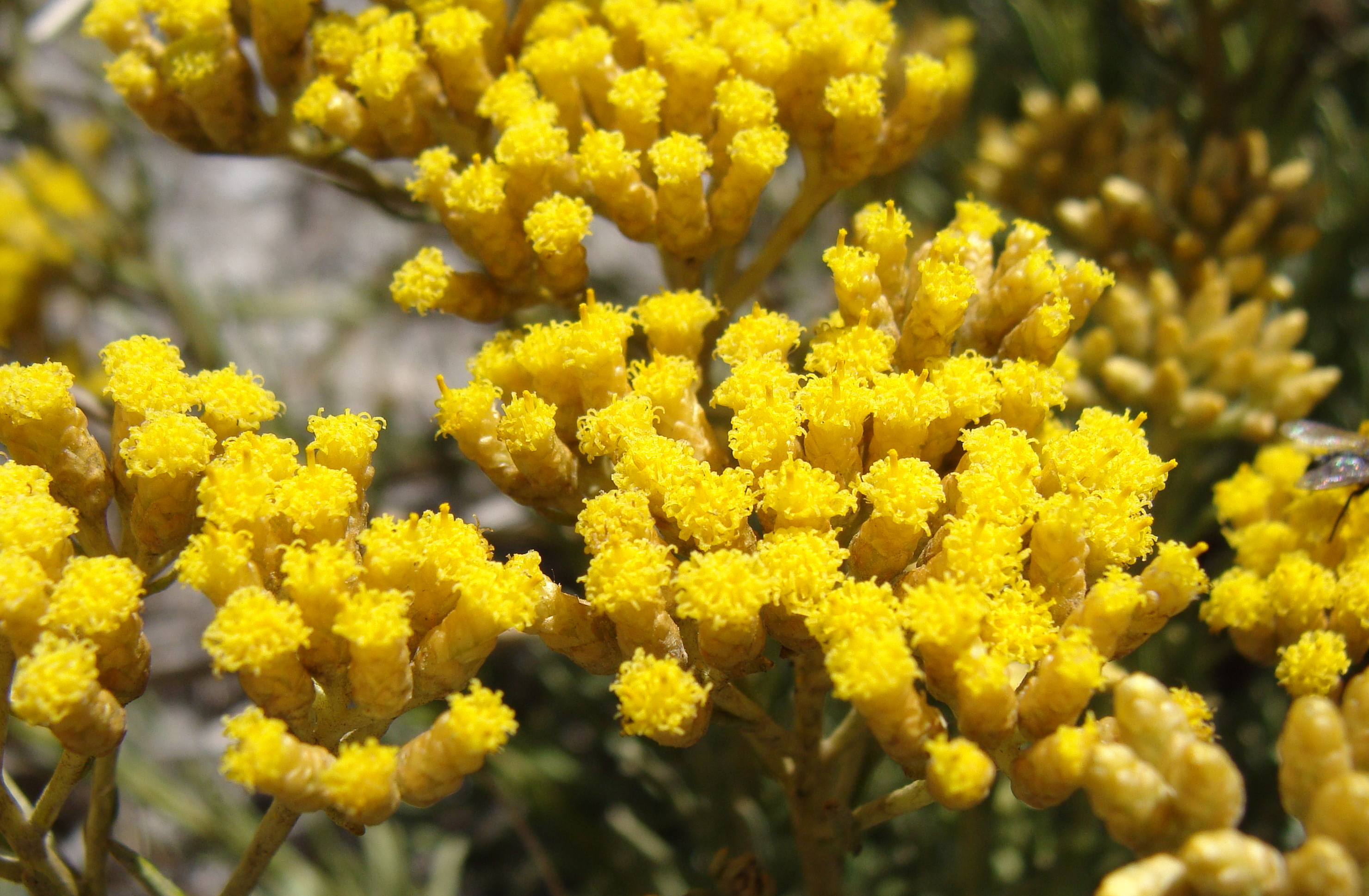 Helichrysum italicum spp serotinum (Curry plant) in Cíes Islands, Pontevedra, Galicia, Spain.